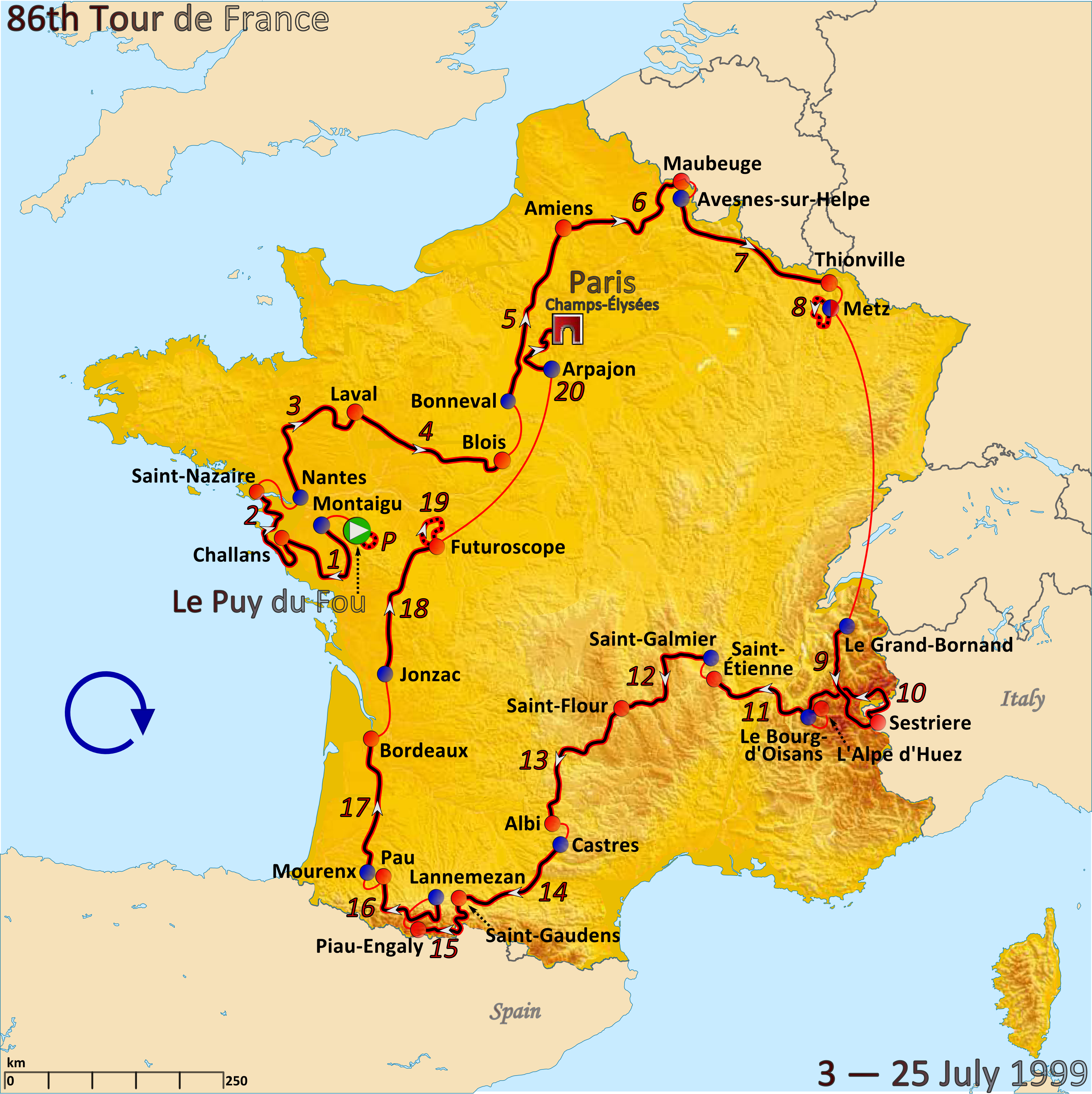 Map of the 1999 Tour de France created in Inkscape